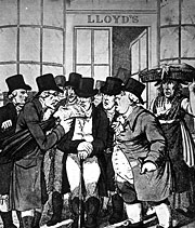 Lloyd's Coffee House, London. Drawing by unknown 19th-century cartoonist.